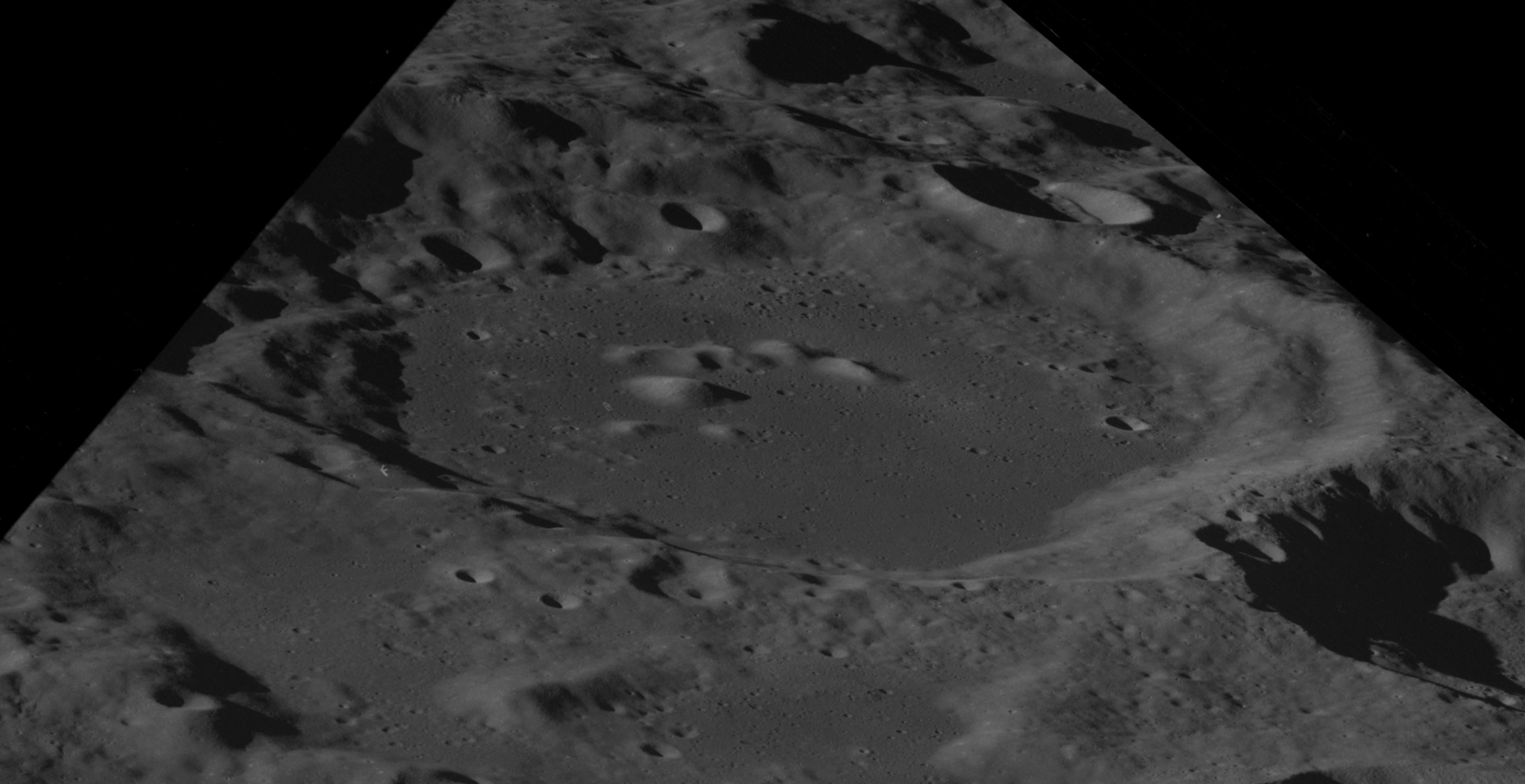 Oblique view of Colombo crater, on the moon, facing south. The dark fields show the edges of the original photograph.